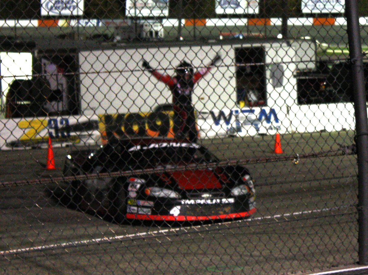 14 year old ASA Northern Late Model Series race winner Erik Jones after winning the 100 lap feature at the Oktoberfest race weekend at La Crosse Fairgrounds Speedway.